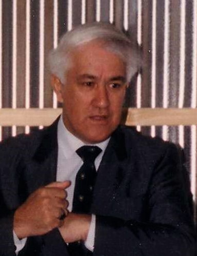 New Zealand politician Paul Reeves in 1990